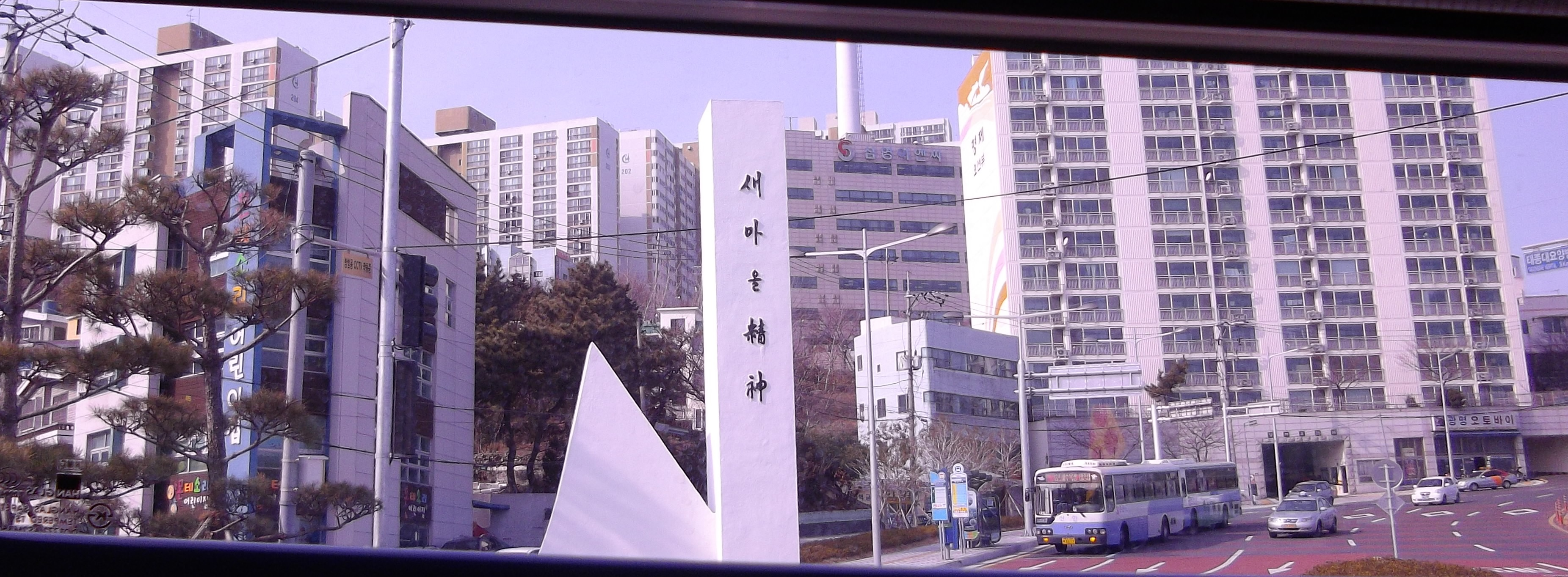 "Saemaul Spirits" , Pusan , Jan 29 2013